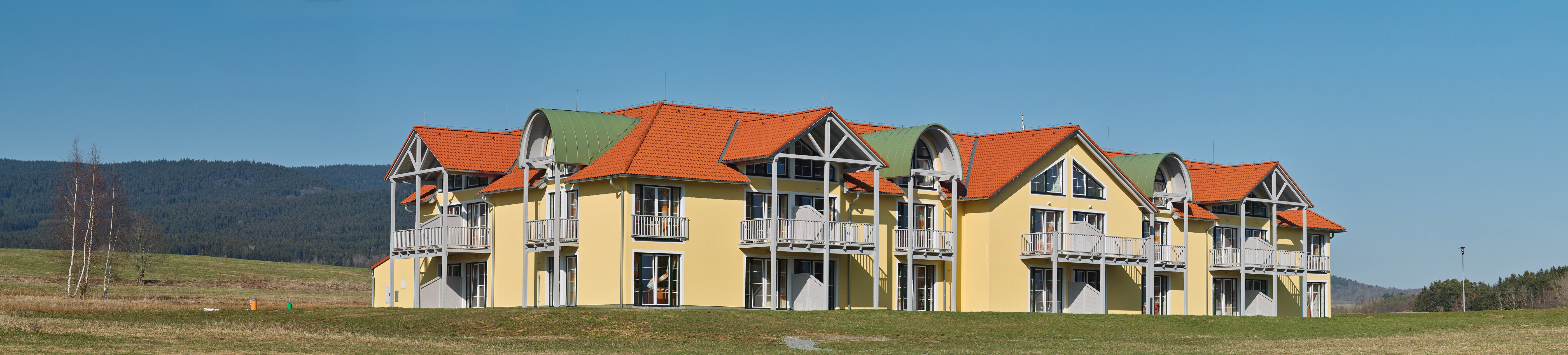 Seepark Residence Lipno-Pernek, hotel built in winter 2007-2008 near Lipno lake, Horní Planá, Czech Republic